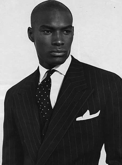 Early photo of model Tyson Beckford for Ralph Lauren Corp. by Arnaldo Anaya-Lucca